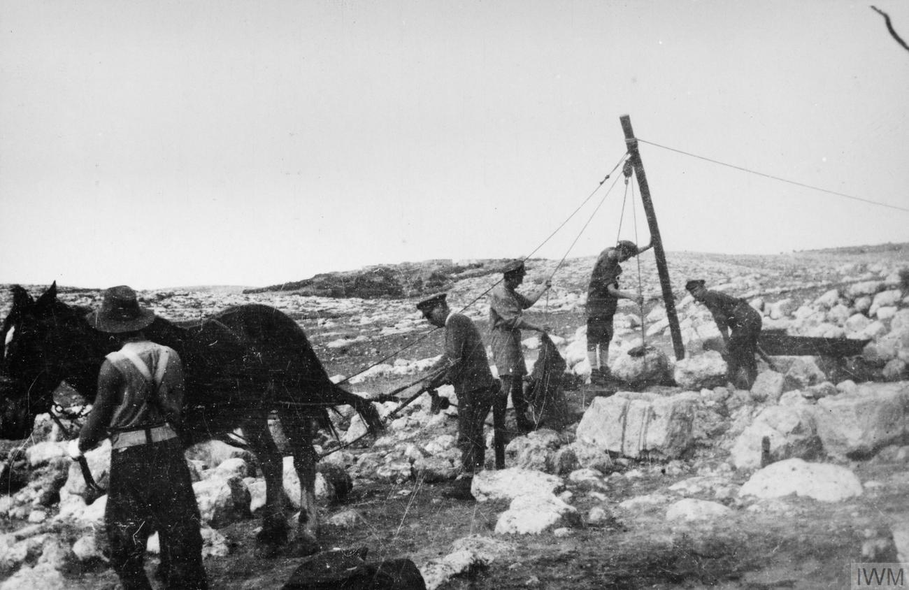 Water raised from old well west of Jerusalem